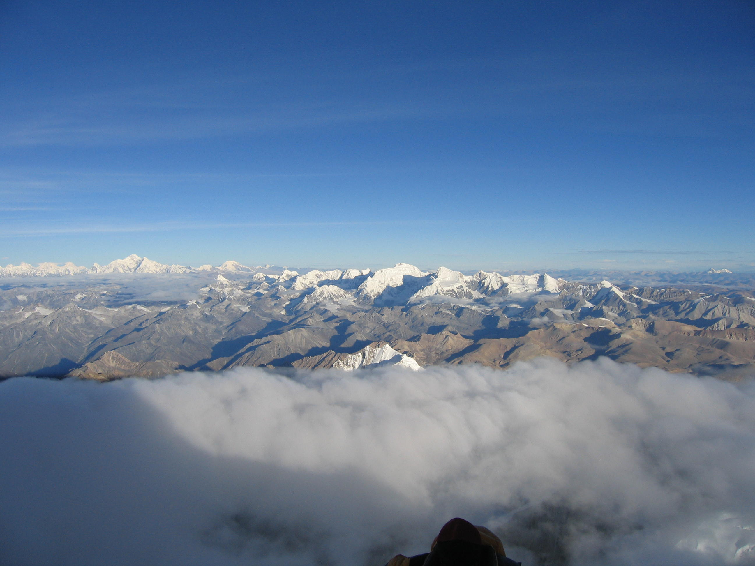 Shisha Pangma (bckgr left) and Labuche Kang (centre) from Cho Oyu (looking ENE)